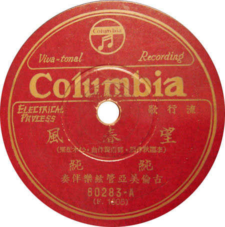 A cover of a disk which recorded the Bang Chhun Hong, a Taiwanese song that published in 1933.